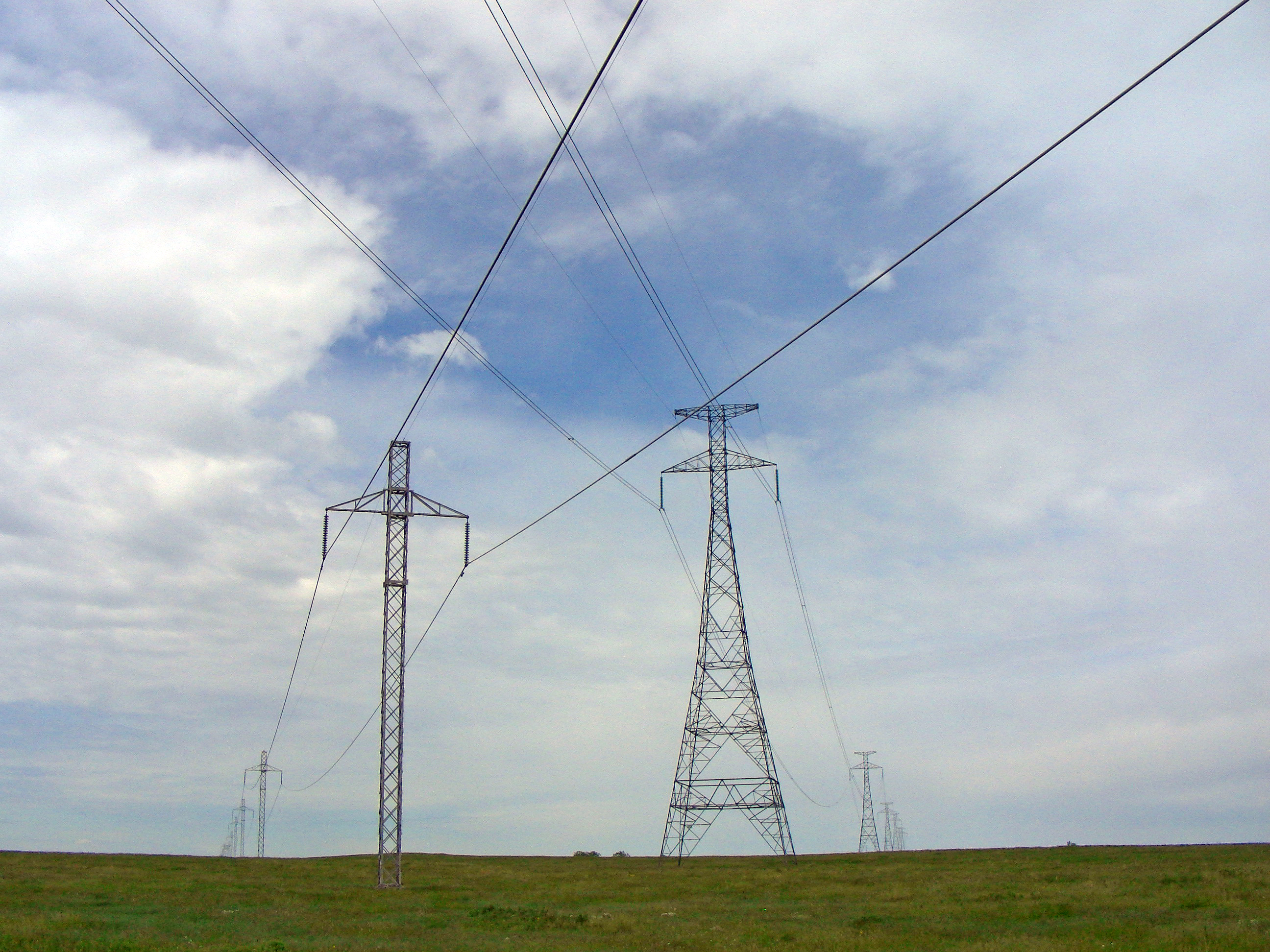 Crossing of HVDC transmission lines CU and Square Butte situated at 47d 2m 48s N, 100d 5m 49 s W, about 17.5 km south-east of Wing, North Dakota. Picture taken facing to the West in a mosquito-filled cow pasture June 2, 2010. Thanks to my very patient wife for spending the day driving out to the middle of nowhere for me to photograph this. Square Butte uses +/- 250 kV DC and single conductors per pole and is the line of towers on the left in this picture. CU uses +/- 400 kV, two conductors per pole and is the line of towers on the right. As far as known, this is the only crossing point of two HVDC overhead powerlines in North America.